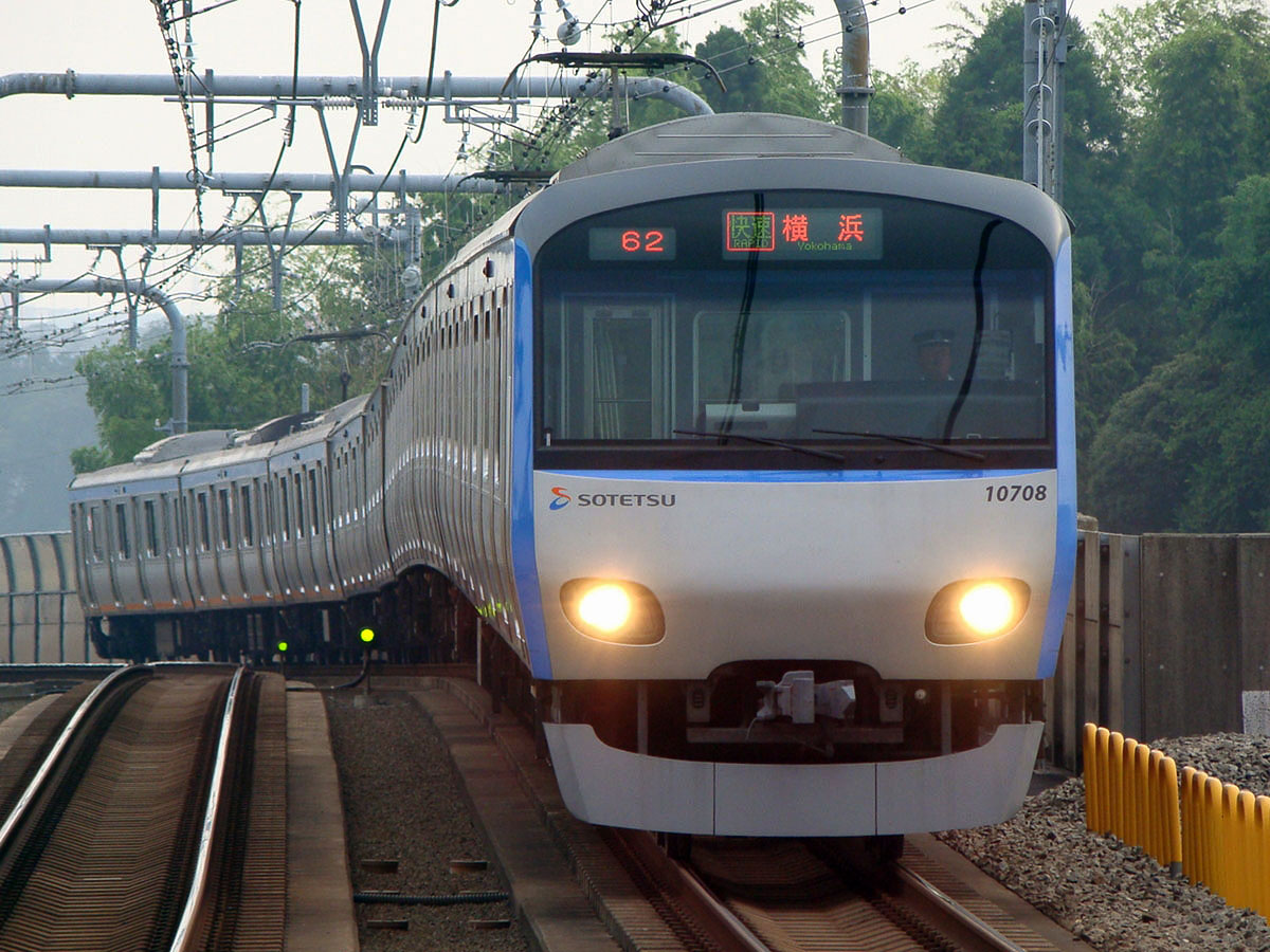 Sotetsu 10000 series 8-car EMU set 10708 in revised livery